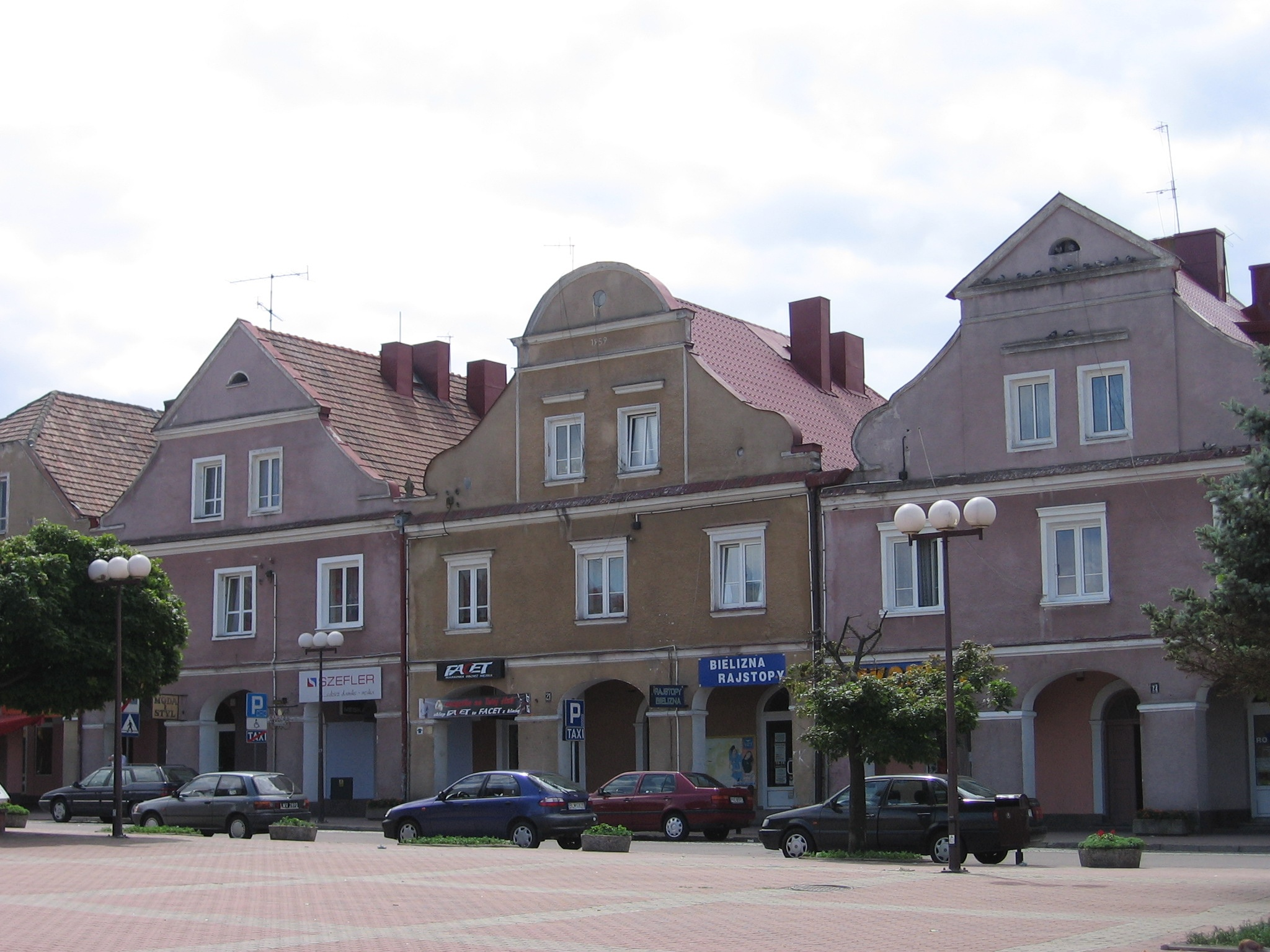 Monumental tenement houses on the Old Marketplace in Łomża.